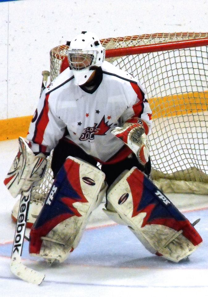 These images of WOAA action are taken by Devan Mighton.